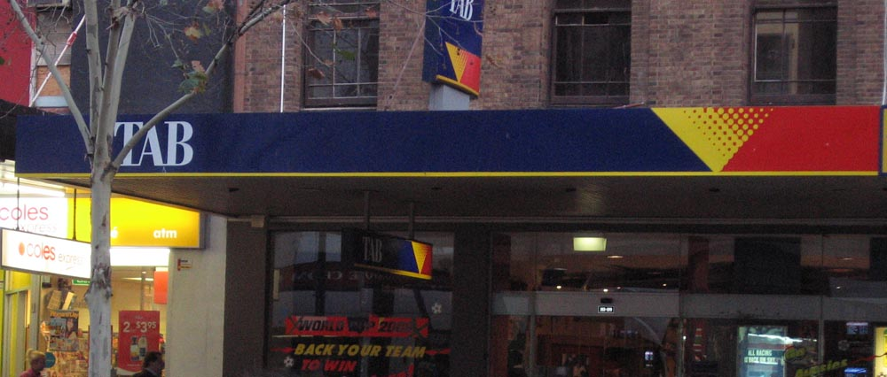 A TAB betting shop in Bourke Street, Melbourne, Victoria.